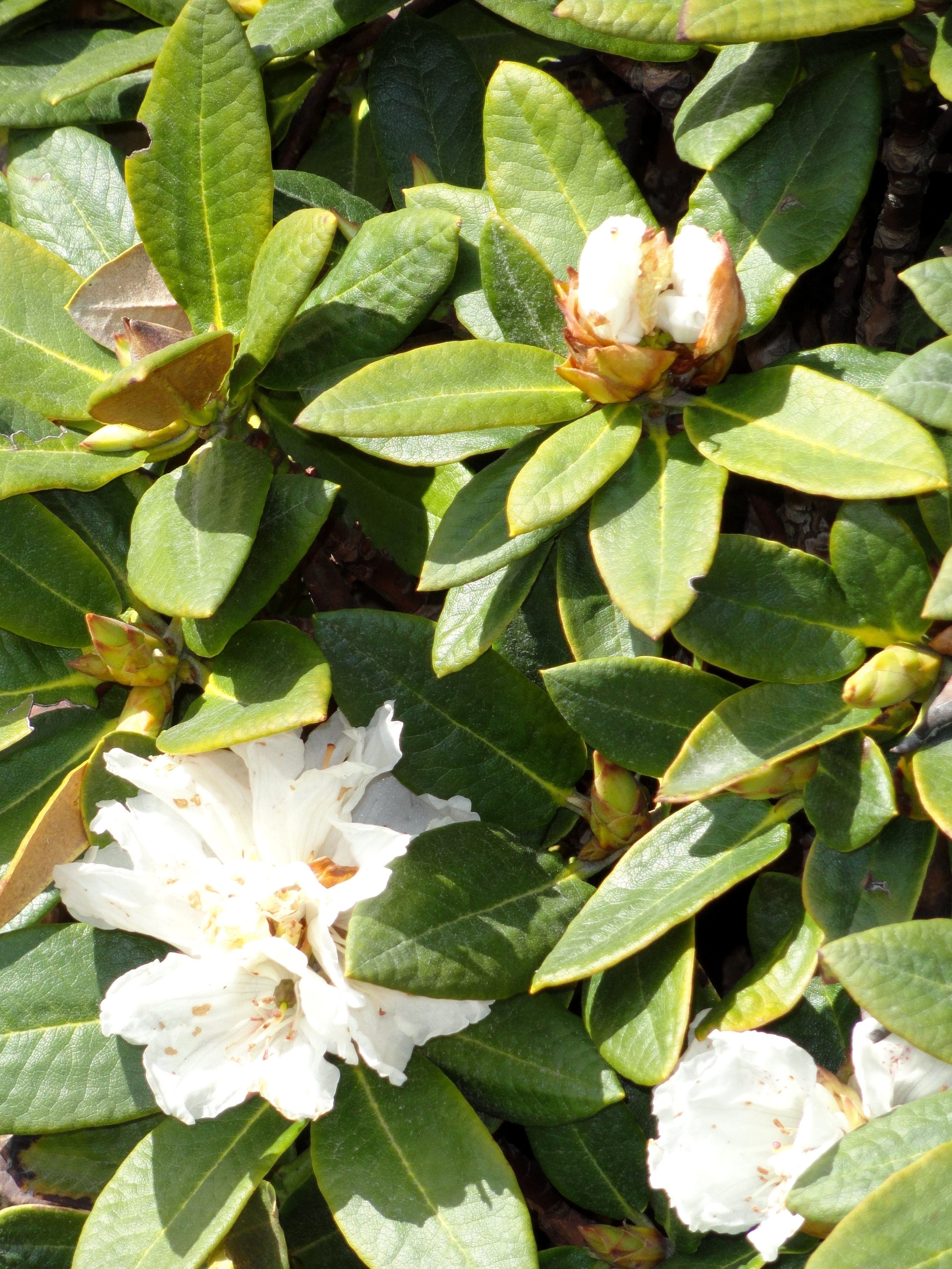 Rhododendron aganniphum var. aganniphum specimen in the University of Copenhagen Botanical Garden, Copenhagen, Denmark.